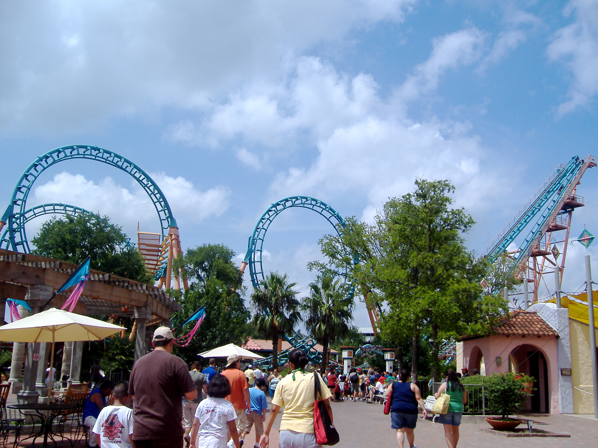 Track of Boomerang at Six Flags Fiesta Texas.